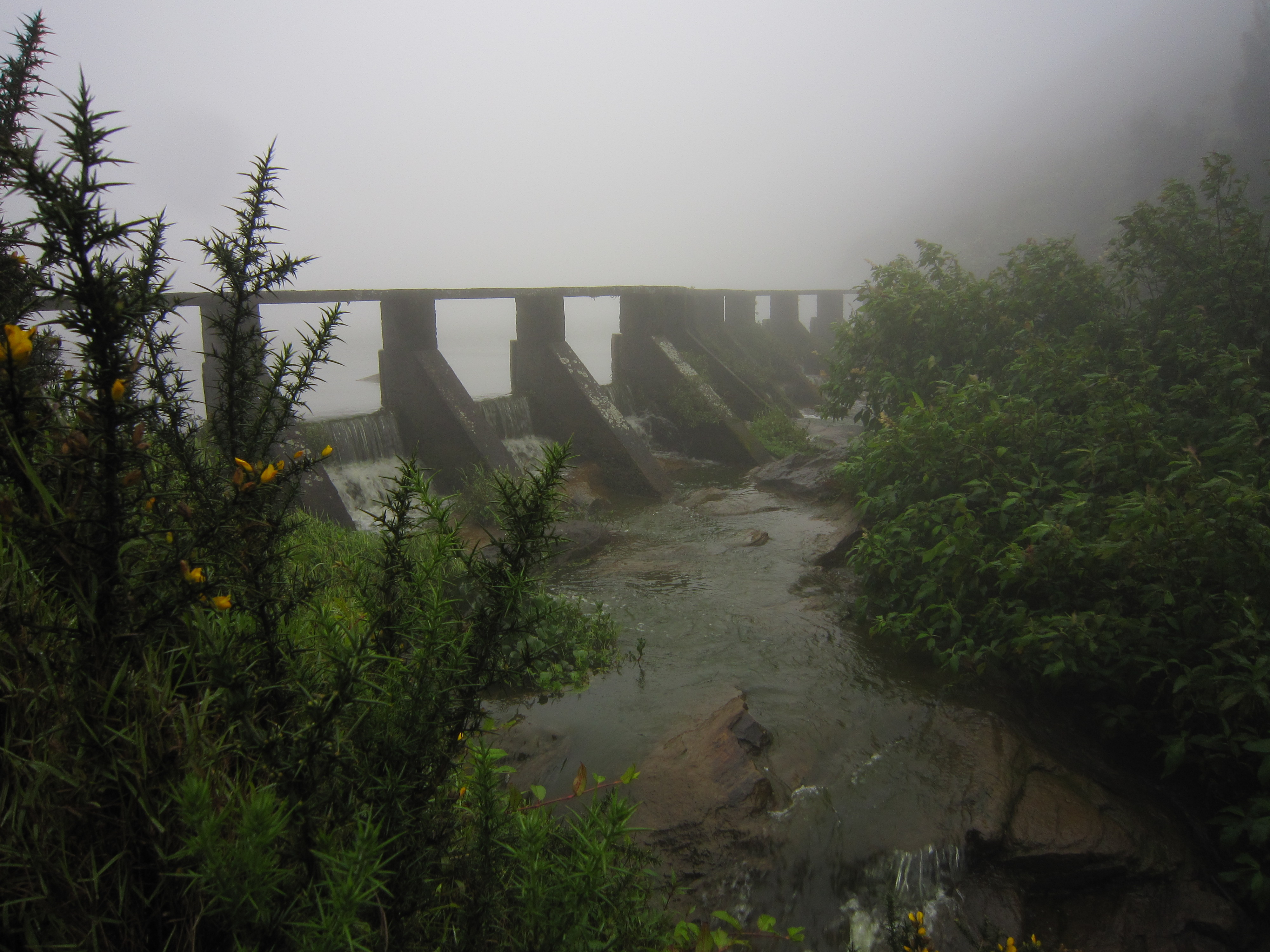 Gregory Lake at Nuwara Eliya - outlet